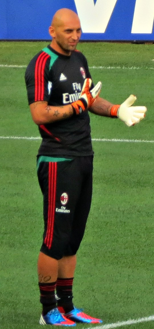 Taken by goatling with a Canon PowerShot SX40 HS camera. Christian Abbiati of A.C. Milan.